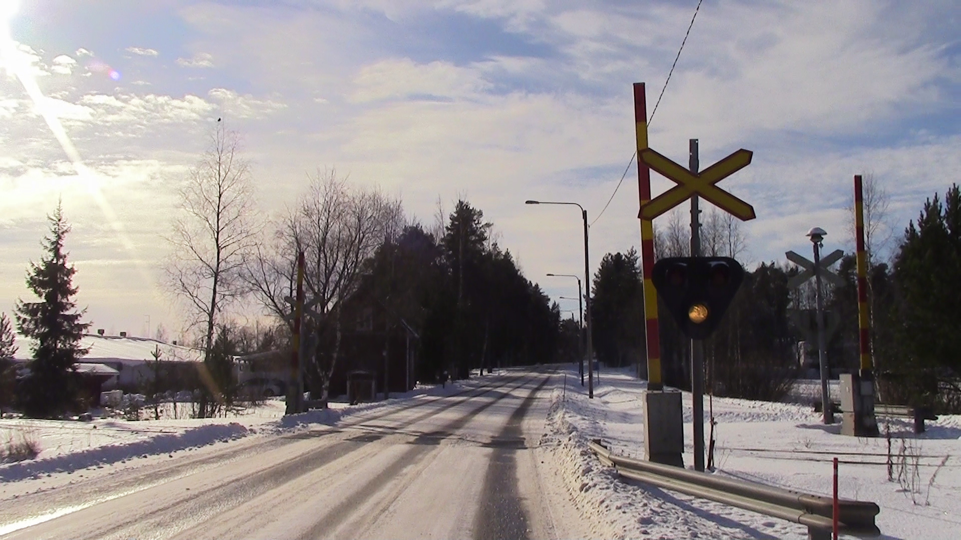 Finnish connecting road 1691 at level crossing of Lahti-Loviisa line in Orimattila, Finland. The road runs from Orimattila to Villähde in Lahti.